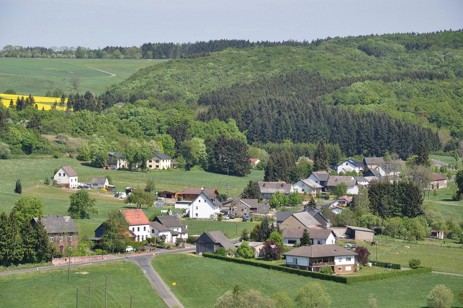 The village of Beinhausen (Kelberg Municipality, District Vulkaneifel, Rhineland-Palatinate, Germany).